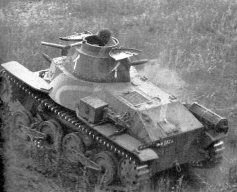 Rear-side angle view of IJA Type 95 Ha-Go Hokuman version (a/k/a/ Manchuria model) of the Manchuria Tank School with inverted suspension components